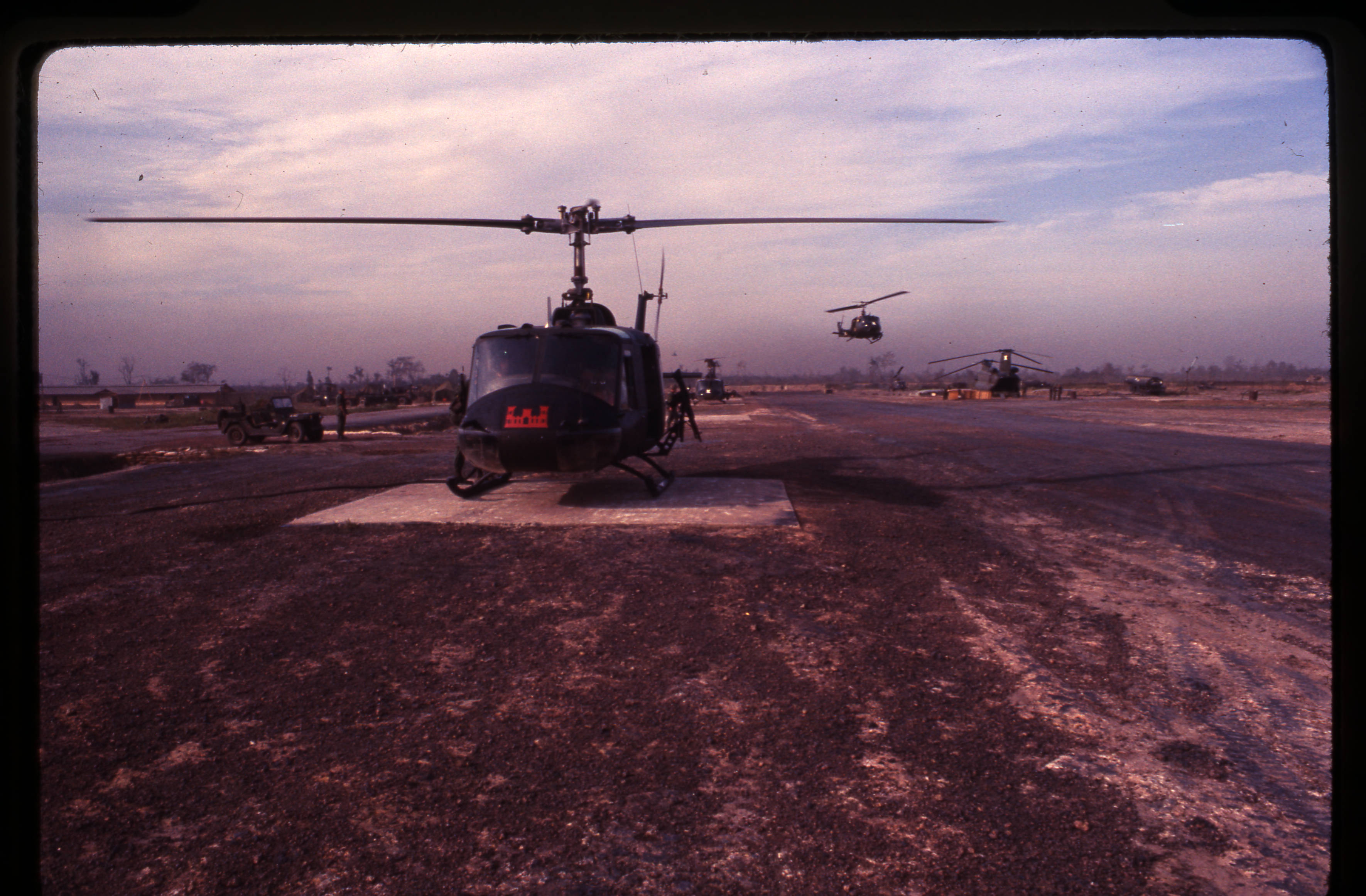 The dust free conditions at the heliport in the Long Thanh complex are the result of frequent applications of peneprime